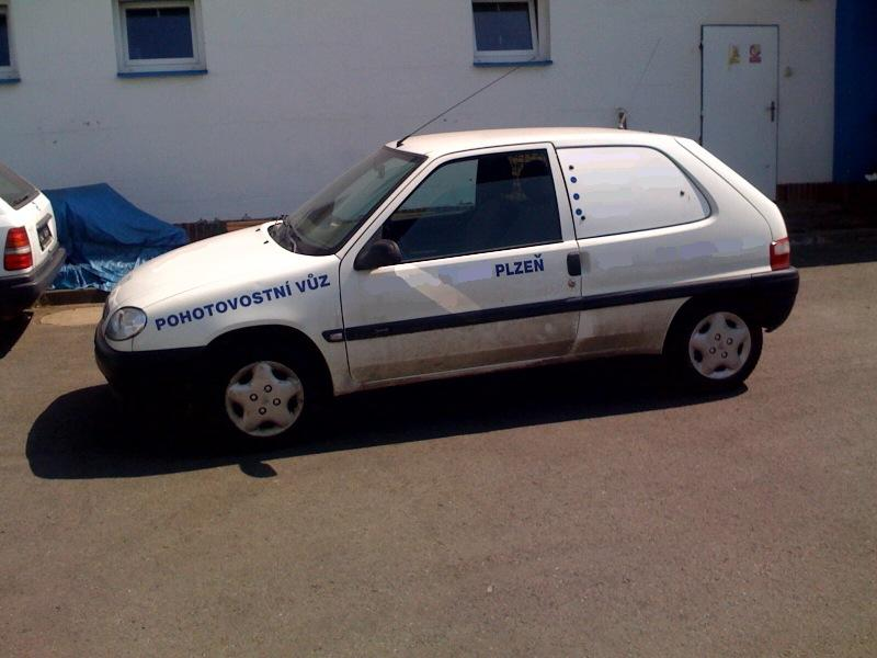 Citroën Saxo Van